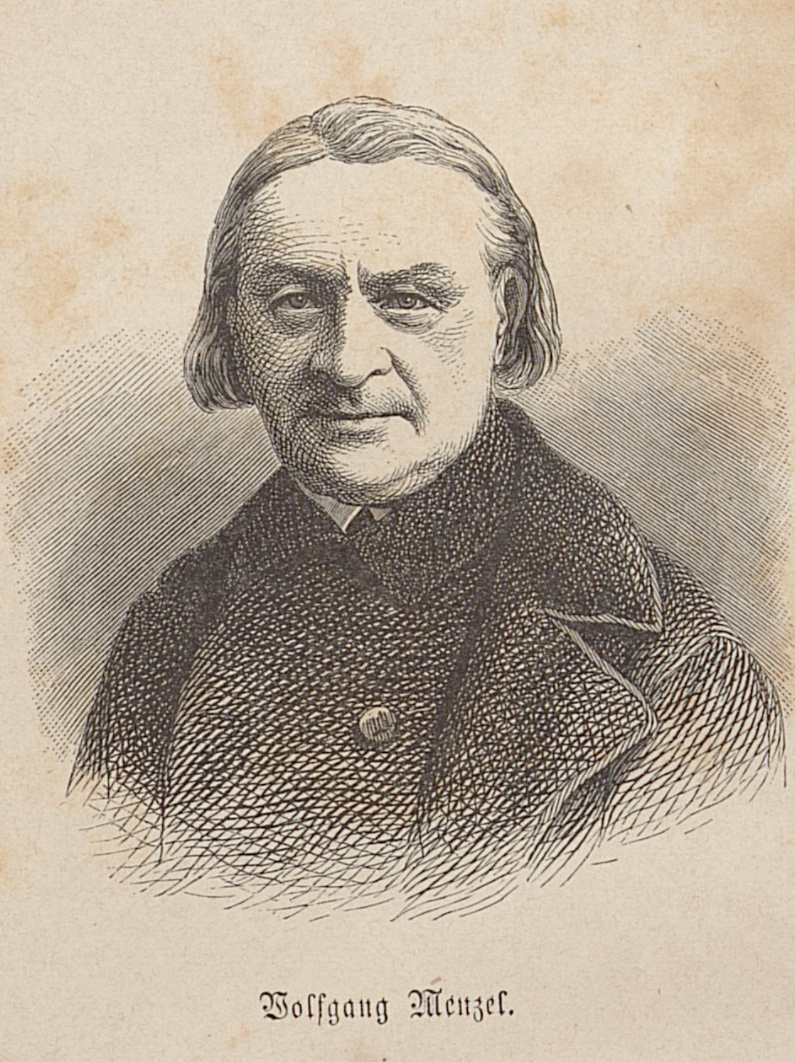 Portrait of Wolfgang Menzel (1798–1873), German poet, critic and literary historian